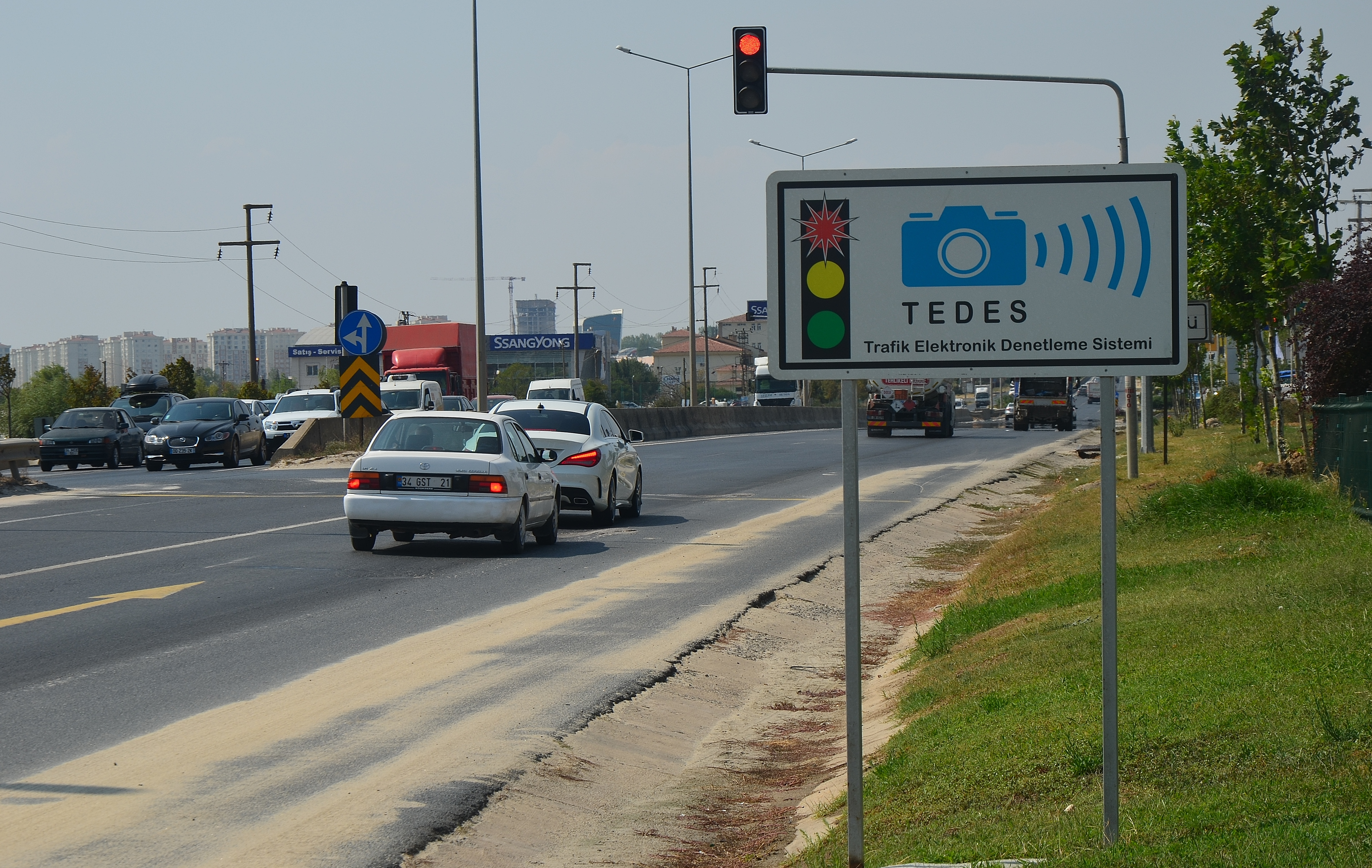 Road sign for TEDES ("Trafik Elektronik Denetleme Sistemi" for "Electronic Traffic Control System") on thestate road D-100 in Çorlu, Tekirdağ Province, Turkey